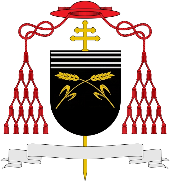 Coat of arms of Scipione Rebiba